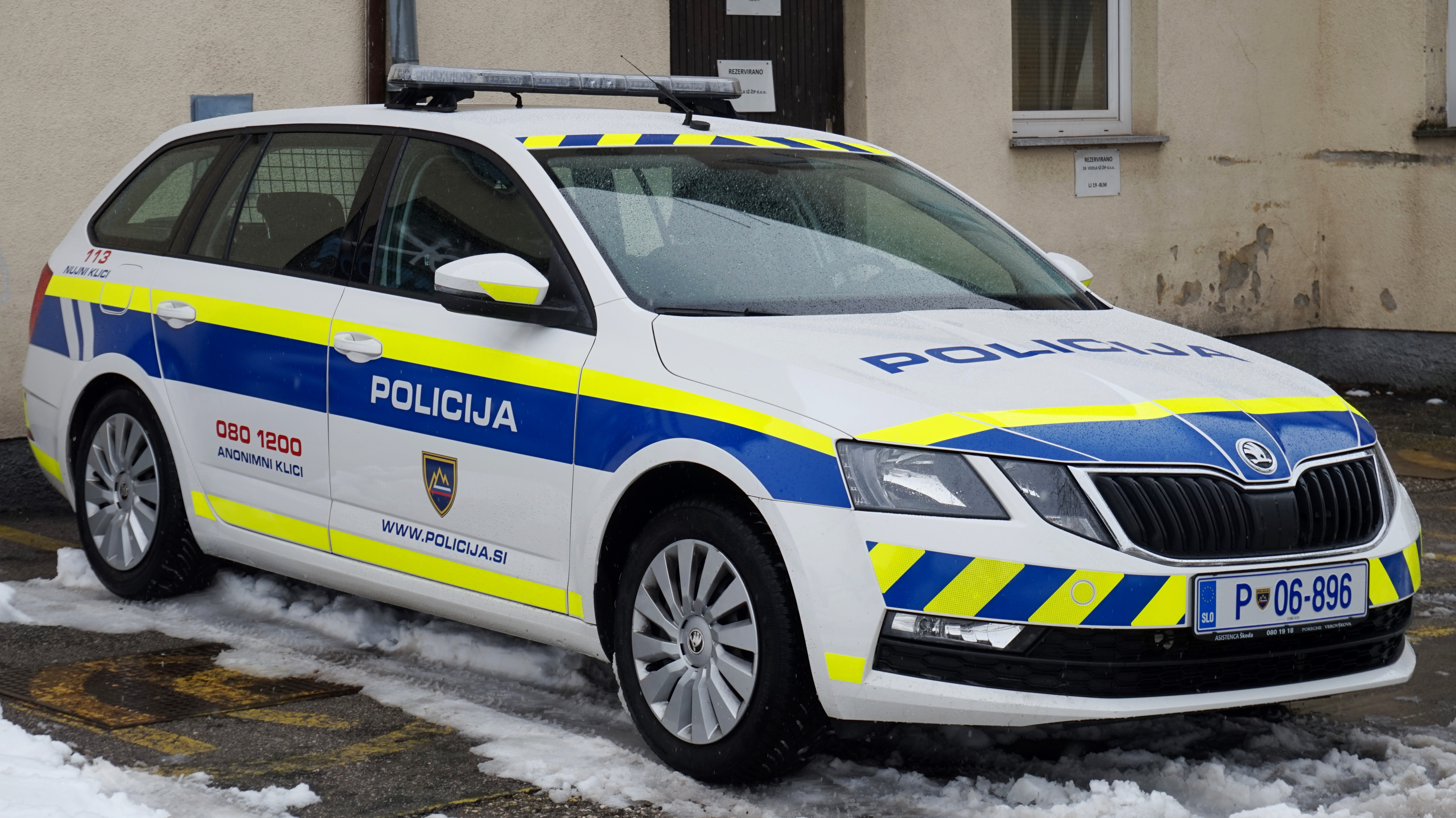 Slovene police car Škoda Octavia III (2017 facelift)